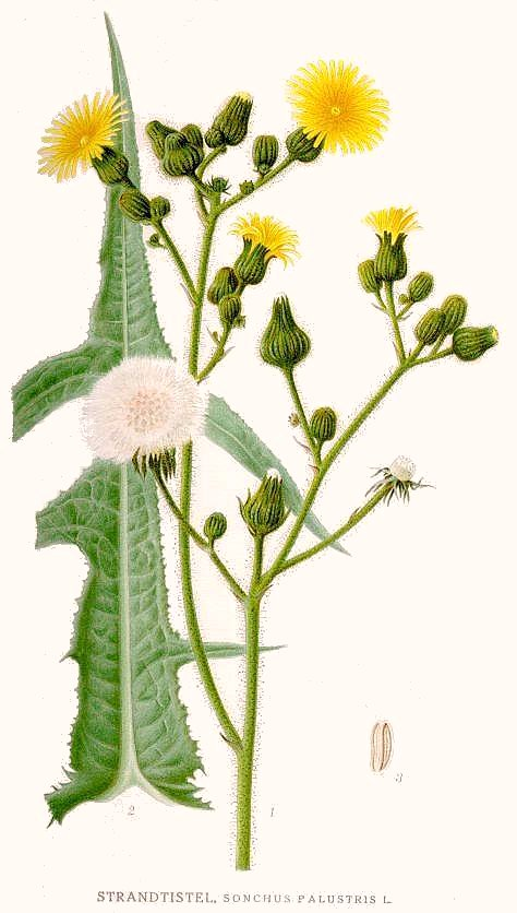 Original Description Strandtistel, Sonchus palustris L.